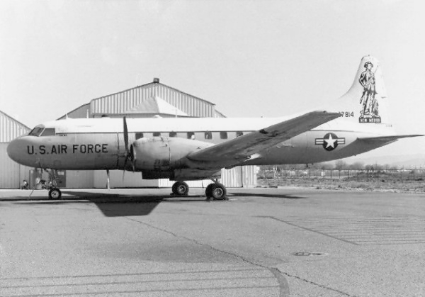 A U.S. Air Force Convair C-131B Samaritan (s/n 53-7814) from the New Mexico Air National Guard.